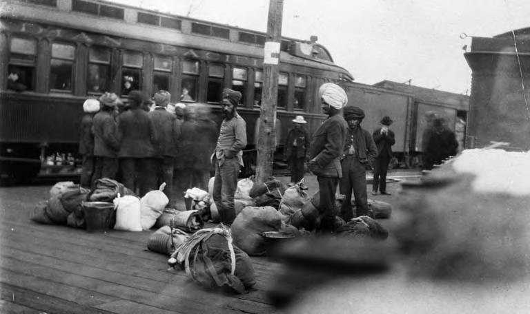 PH Coll 171.20 Subjects (LCTGM): Travelers--British Columbia; Railroad cars--British Columbia; Turbans Subjects (LCSH): Sikhs--British Columbia; Canadian Pacific Railway Company